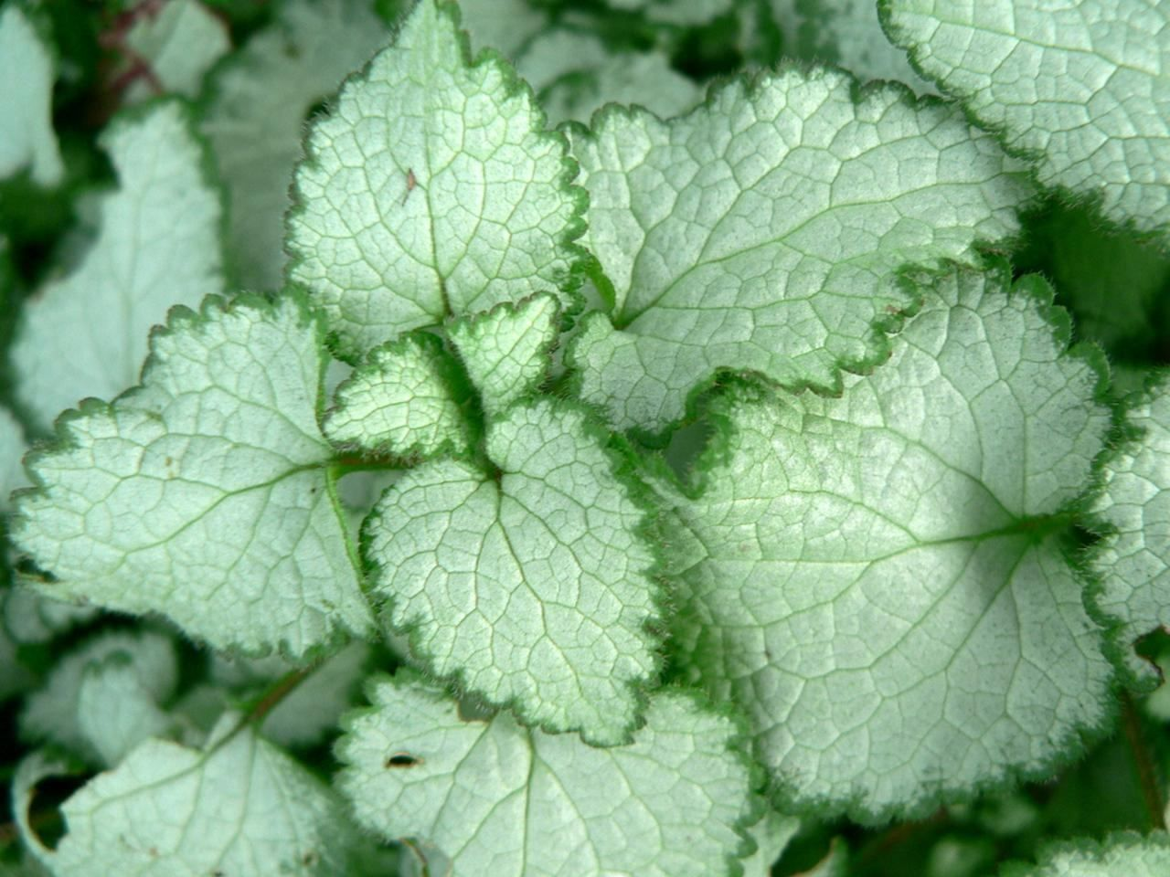 Image title: Green colored leaves Image from Public domain images website